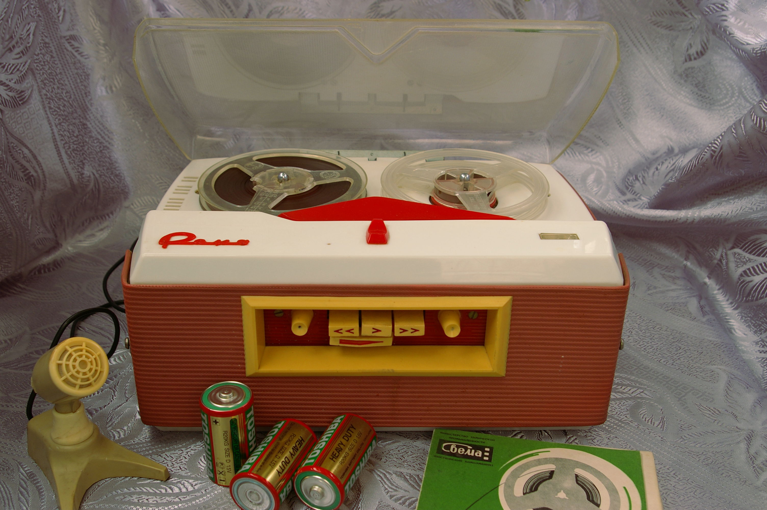 Romantik portable tape recorder. G. I. Petrovski plant, USSR, Gorky city, 1965